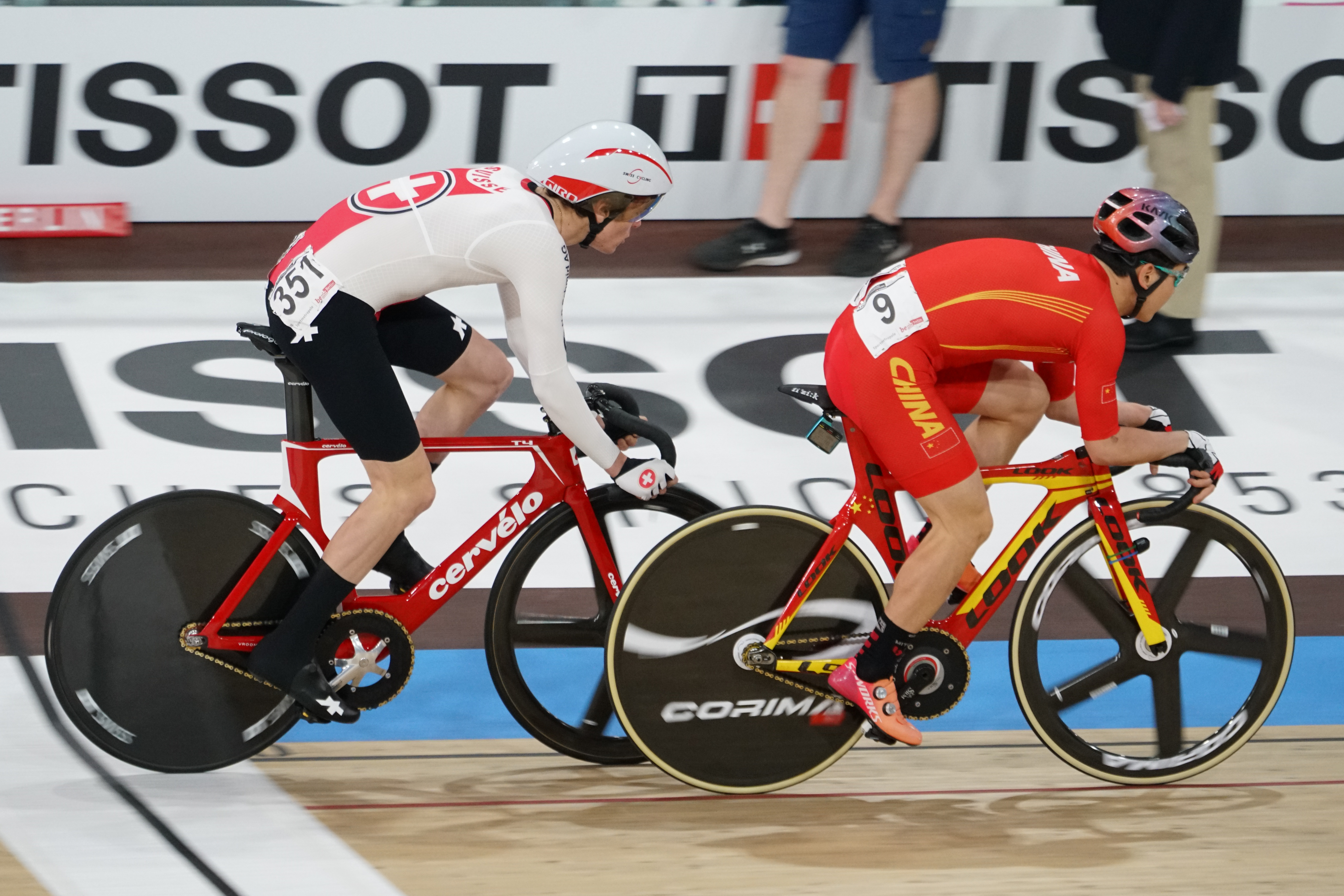 2020 UCI Track Cycling World Championships – Men's Scratch Race - Guo Liang (front), Mauro Schmid